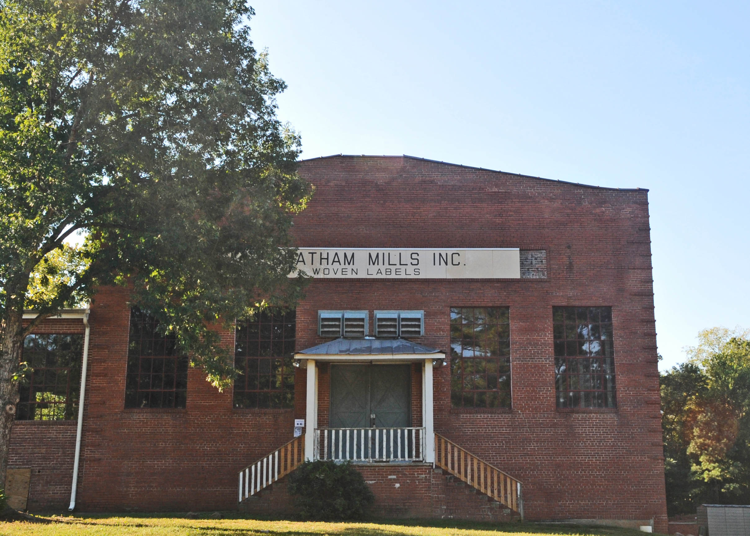 CHATHAM MILLS - FORMER MANUFACTURING MILL NOW CONVERTED IN SHOPS, RESTAURANTS AND A THEATER FOR THE PERFORMING ARTS